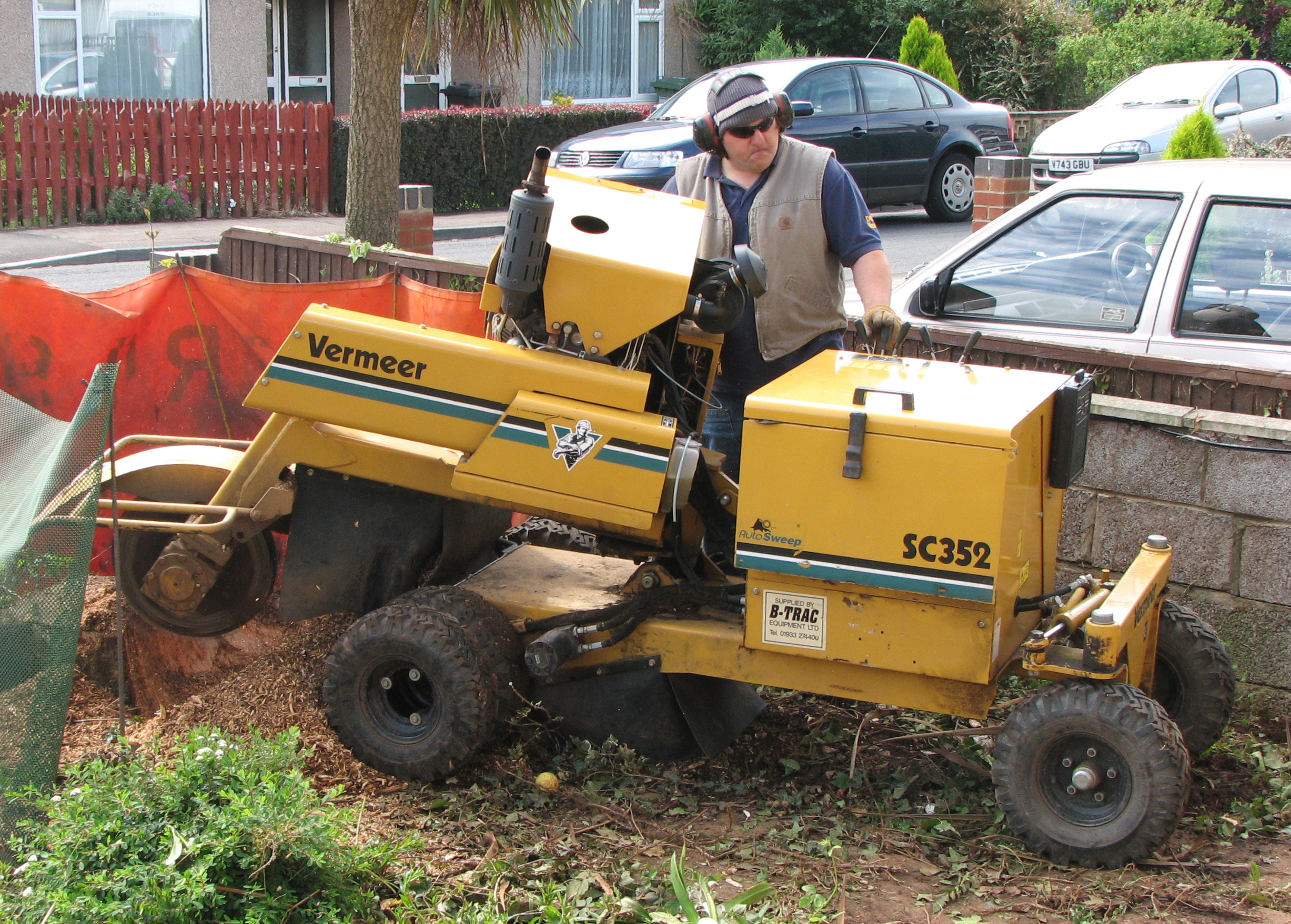 A petrol-driven Vermeer stump grinder in Yate, South Gloucestershire, England, ready to continue removing the stump of an 80 foot high eucalyptus tree. The grinding head appears to be perfectly smooth (no teeth) because it is rotating at speed. The stump can be glimpsed on the left with a curved cut taken out of it. The grinding head is about to be lowered for another cut.